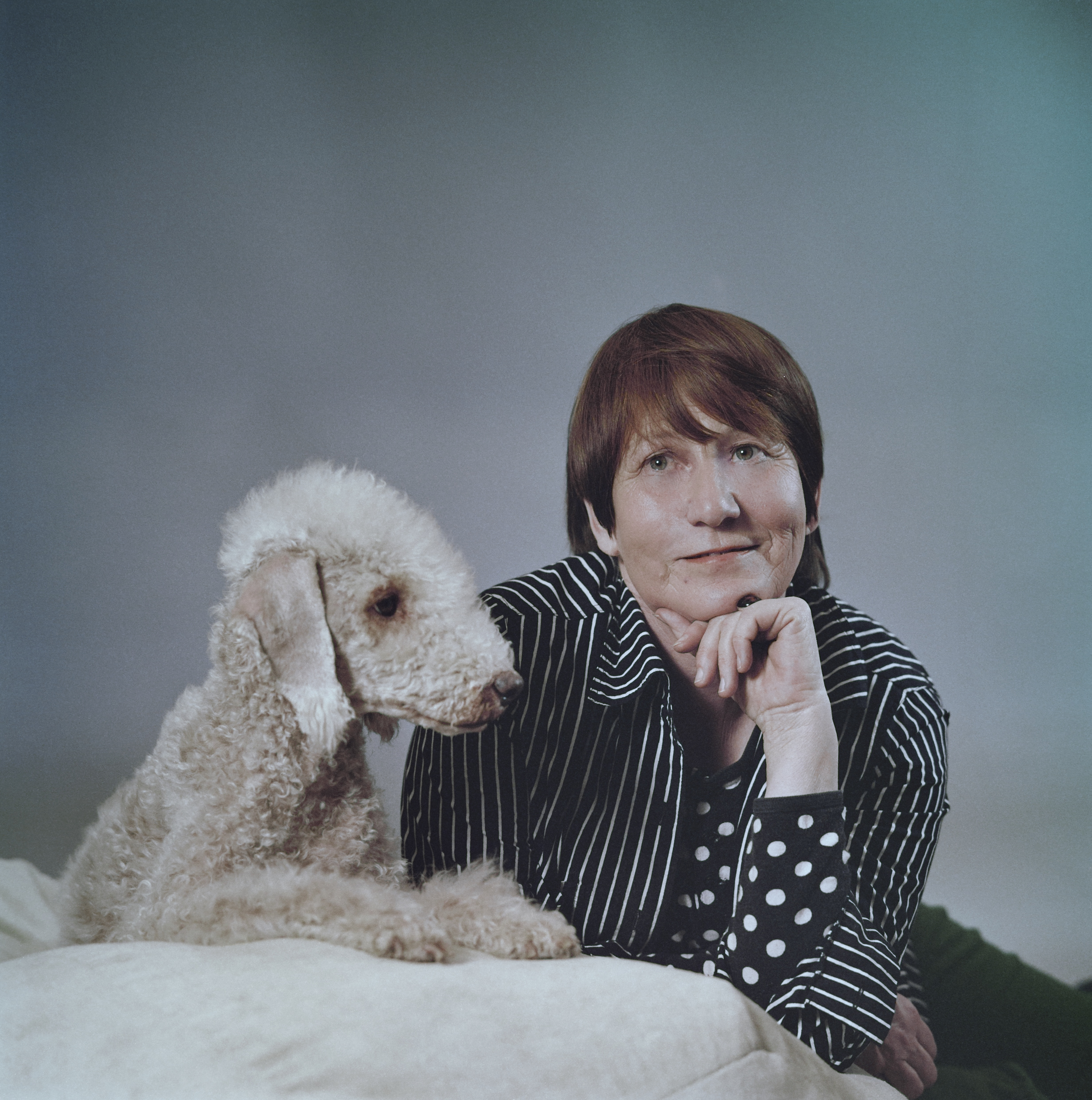 Photograph of the Finnish writer Kirsti Jaantila (1923–1985) with a dog.